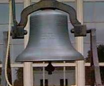 This is a large heavy bell from a church in the United States. Because of its size, this bell did not fit the church's bell tower, so the bell sits on a bell cote made of stone. (A bell-cote, also spelled bell cot, is a stand or a shelter for a bell.)